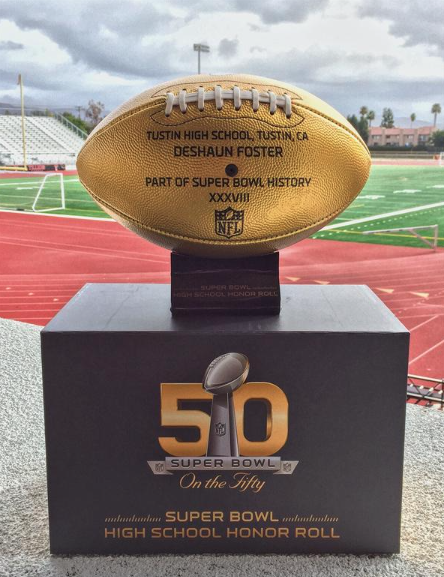 Golden Ball